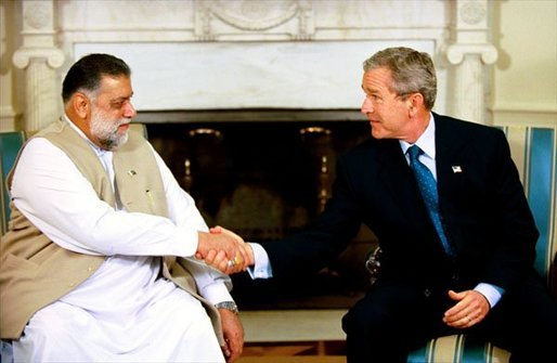 President George W. Bush meets with Prime Minister Mir Zafarullah Khan Jamali of Pakistan in the Oval Office Wednesday, Oct. 1, 2003. White House photo by Eric Draper.